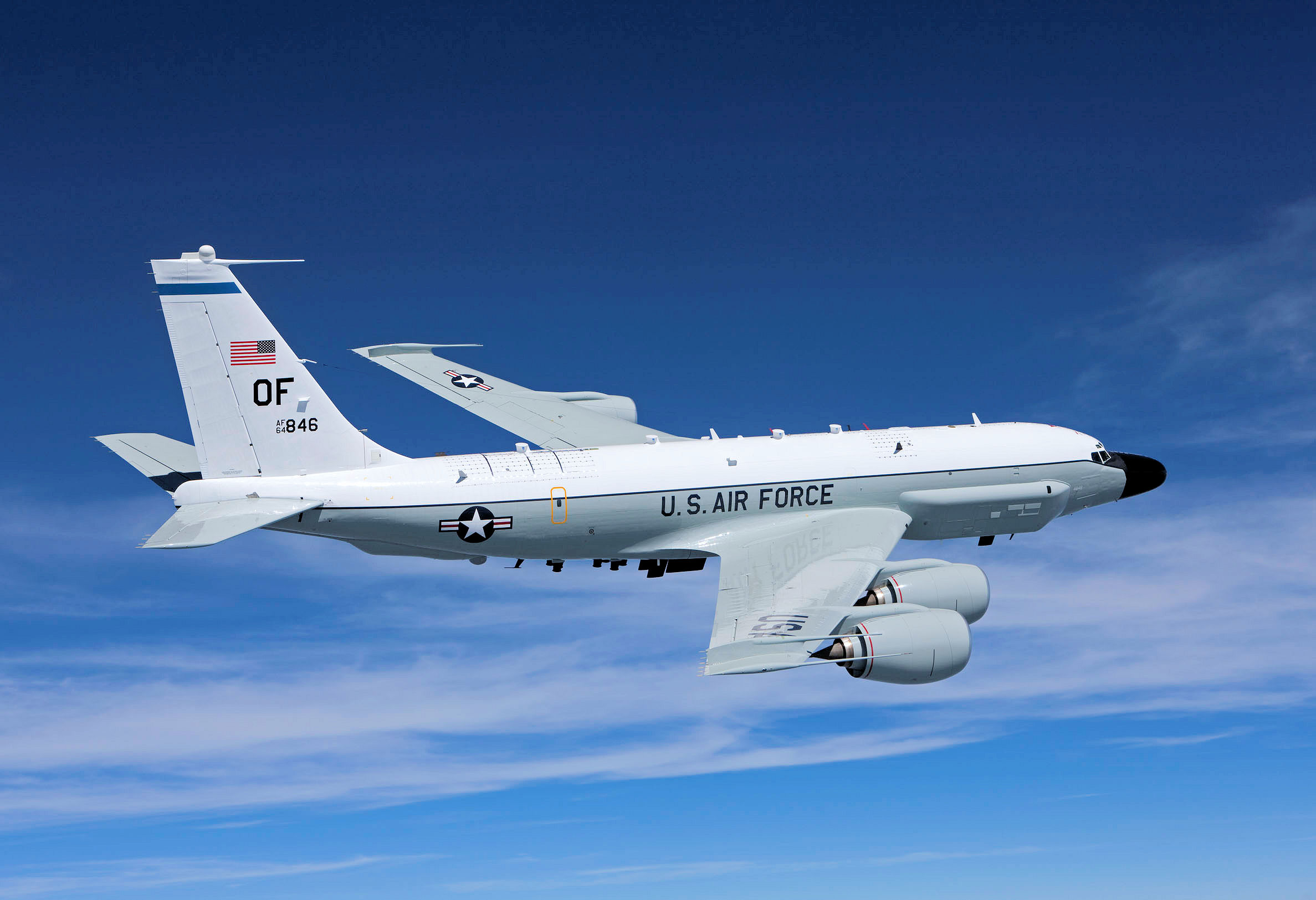 38th Reconnaissance Squadron Boeing RC-135V Rivet Joint 64-14846 Electronic Intelligence Aircraft